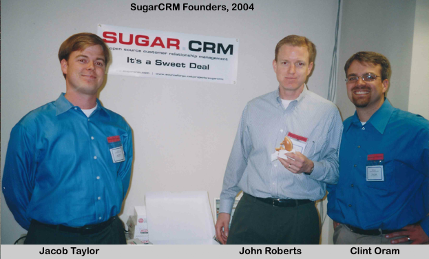 SugarCRM Inc. founders Jacob Taylor, John Roberts, Clint Oram